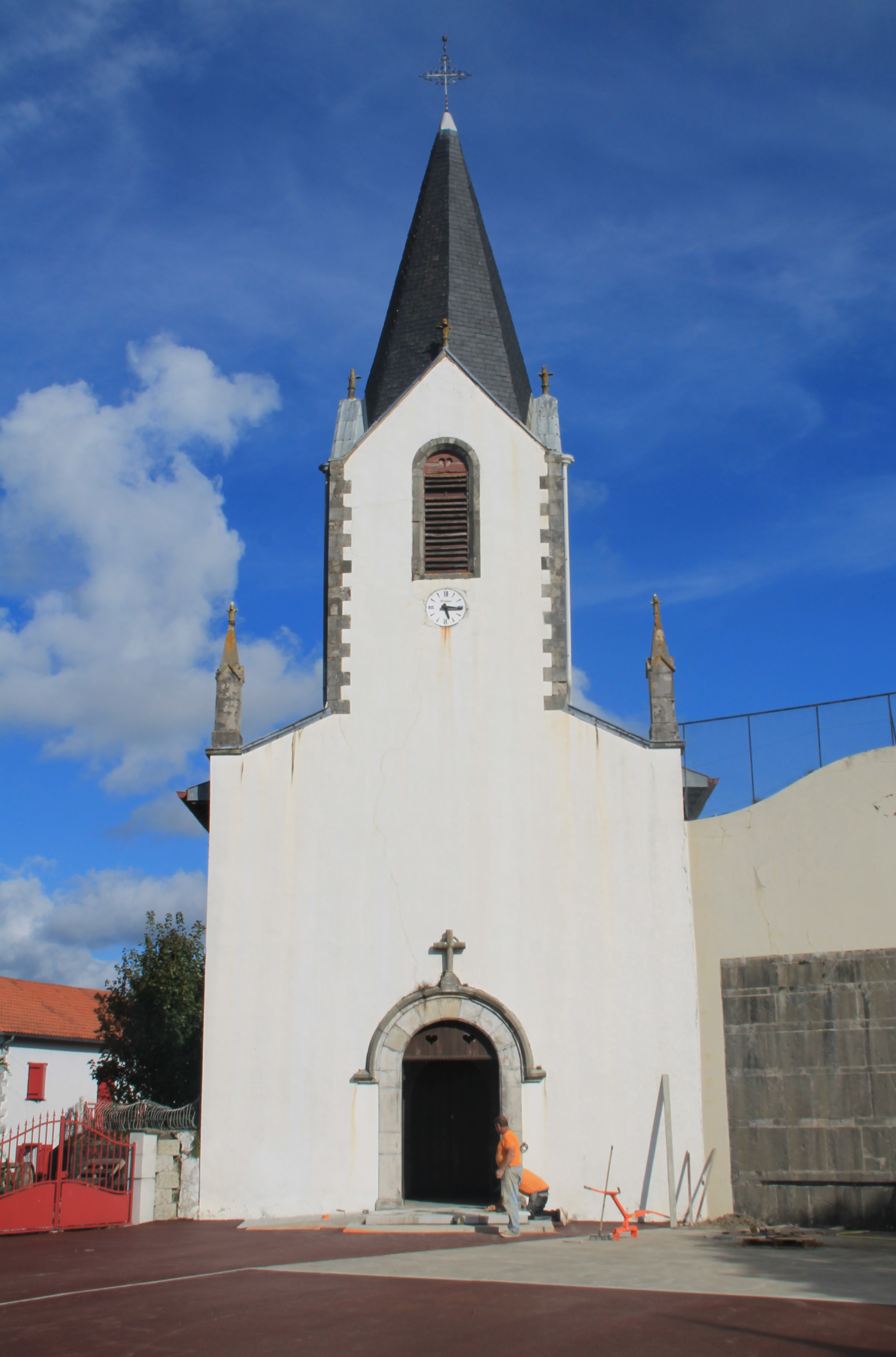 L'église